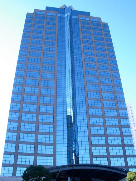 The Nishinjuku Mitsui building. Shinjuku, Tokyo